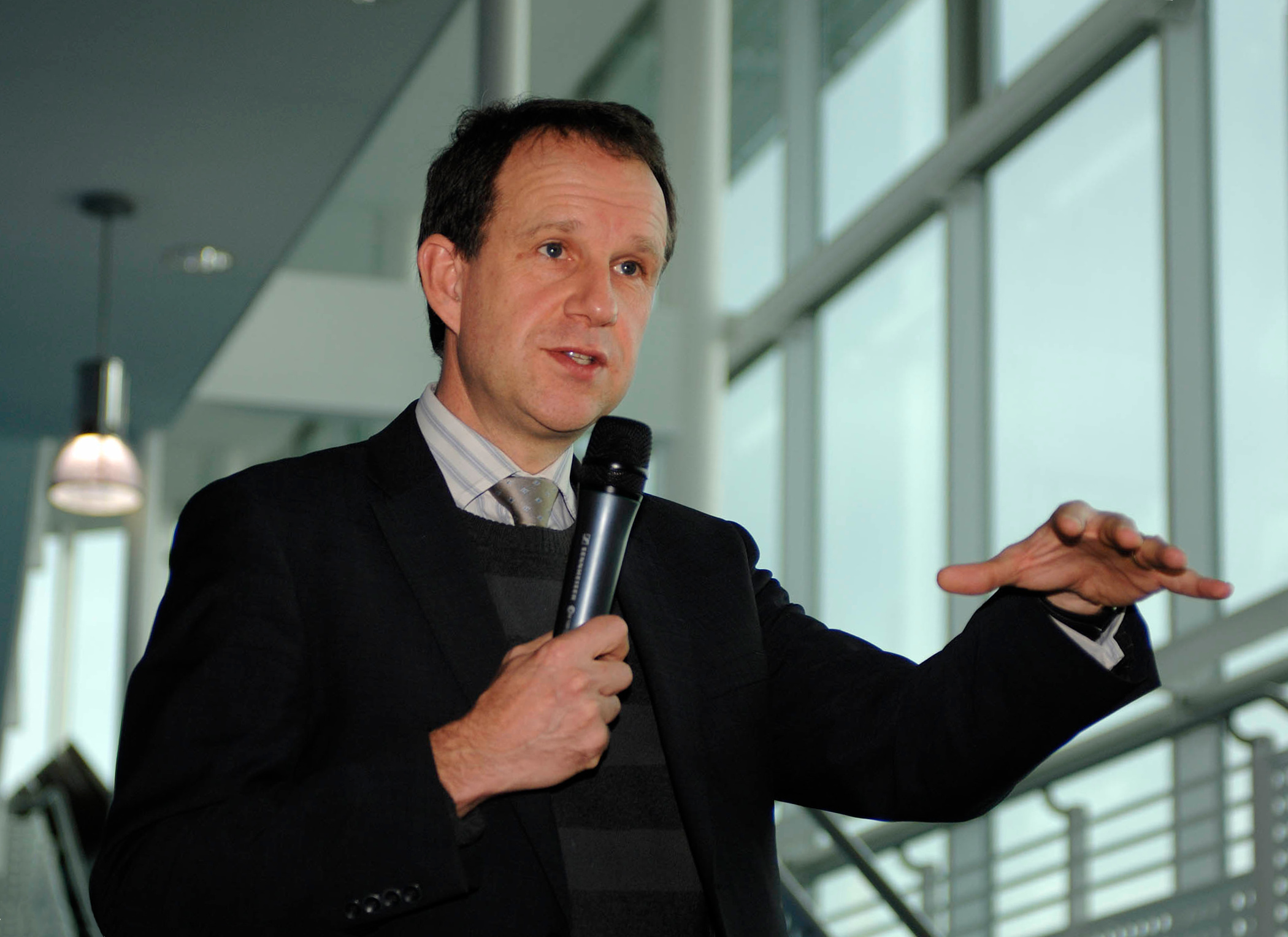 Dr William Bird MBE, who thought up the original idea of the scheme Walking for Health to encourage people to exercise, speaking at a volunteers meeting at National Marine Aquarium, Plymouth, England on 14 January 2010.